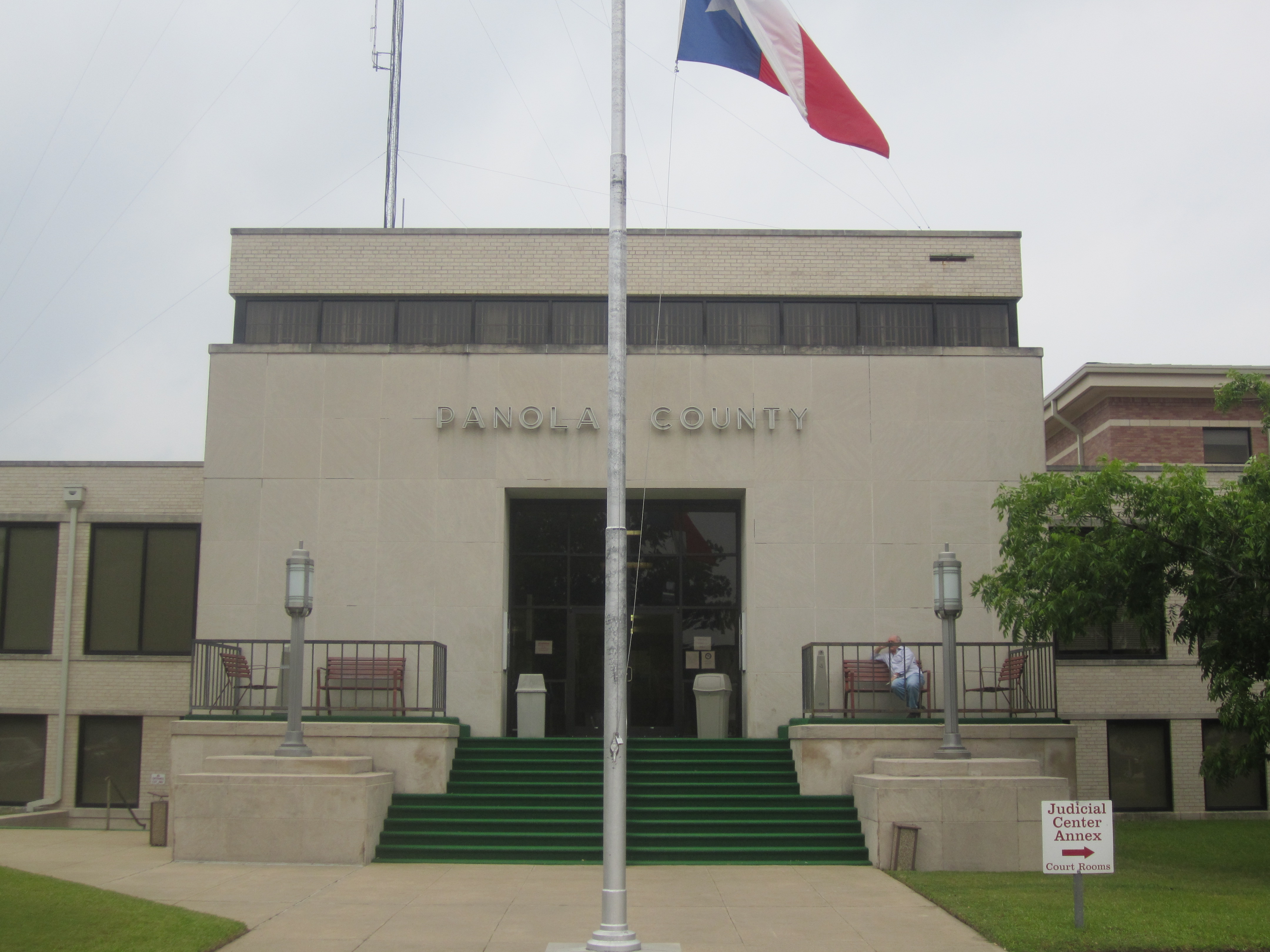 I took photo with Canon camera in Carthage, TX.